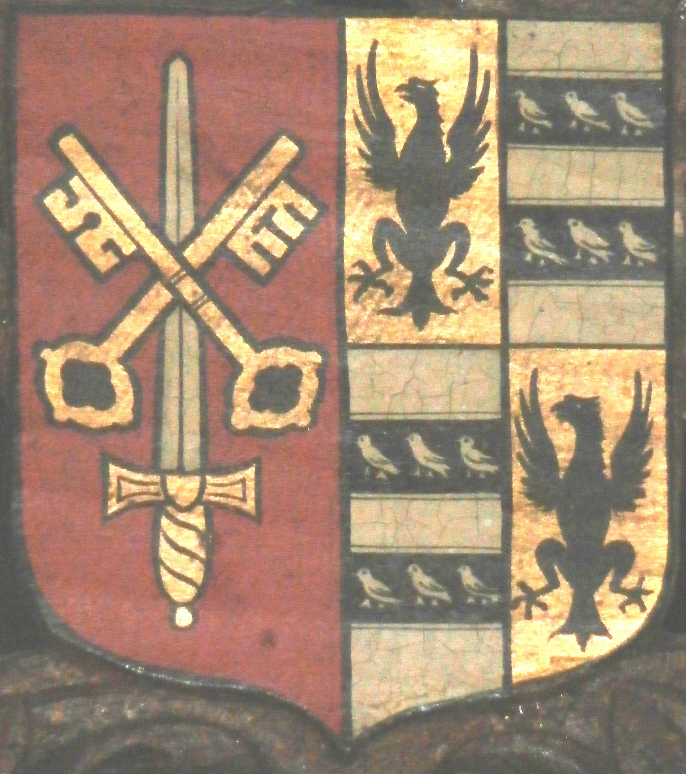 Arms of Frederick Temple (1821-1902), Bishop of Exeter. Escutcheon on screen of Washfield parish church, Devon, which church was restored between 1871-4, during his tenure as Bishop. (Source: Smith, Francis, St Mary the Virgin Church, Washfield, p.5 (church guide booklet)). The arms are the See of Exeter impaling Temple (as for Temple baronets and Viscount Cobham of Stowe House, Buckinghamshire): Or, an eagle displayed sable (Temple), quartering: Argent, two bars sable each charged with three martlets or (Temple). Source: Willis, Browne, History and Antiquities of the Town, Hundred, and Deanry of Buckingham, London, 1755, p.281, History of Stowe[1], p.283